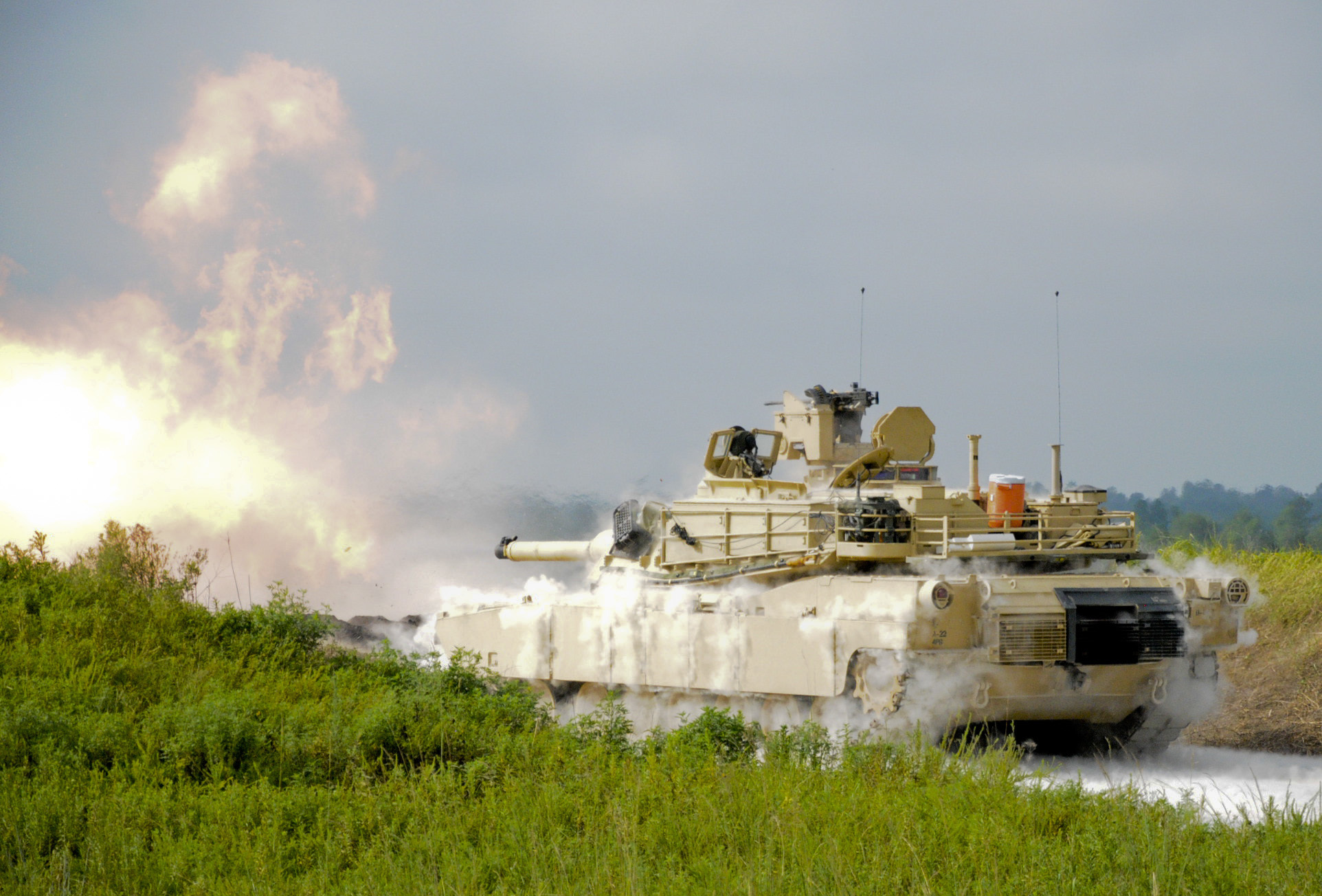 An M1A1 Abrams tank of 2nd Battalion, 198th Armored Regiment, fires at a target down range during the 155th Armored Brigade Combat Team's Exportable Combat Training Capability exercise (XCTC) at Camp Shelby, Miss., on Aug. 5, 2015. Approximately 4,600 soldiers from the Mississippi Army National Guard, active, and reserve components participate in the event. (Mississippi National Guard photo by Sgt. Tim Morgan, 102nd Mobile Public Affairs Detachment/Released)